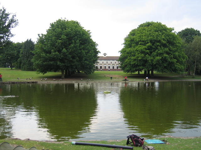 Rowheath Pavilion and fishing Lake. Rowheath Pavilion was built at the behest of George Cadbury in 1924 as part of the facilities for his workers in Bournville. The facilities included sports fields, bowling greens, a lido and this fishing lake. After falling into disrepair following the sale of Cadbury's the Pavilion and many of the facilities were reopened in 1985 following a management buyout. After further financial difficulties the Pavilion is now thriving again under the auspices of the Pavilion Christian Community. Ironically the result of all these upheavals is that this is one of the few places in the former Bournville Estate which serve alcoholic drinks - something of which George Cadbury would not have approved!